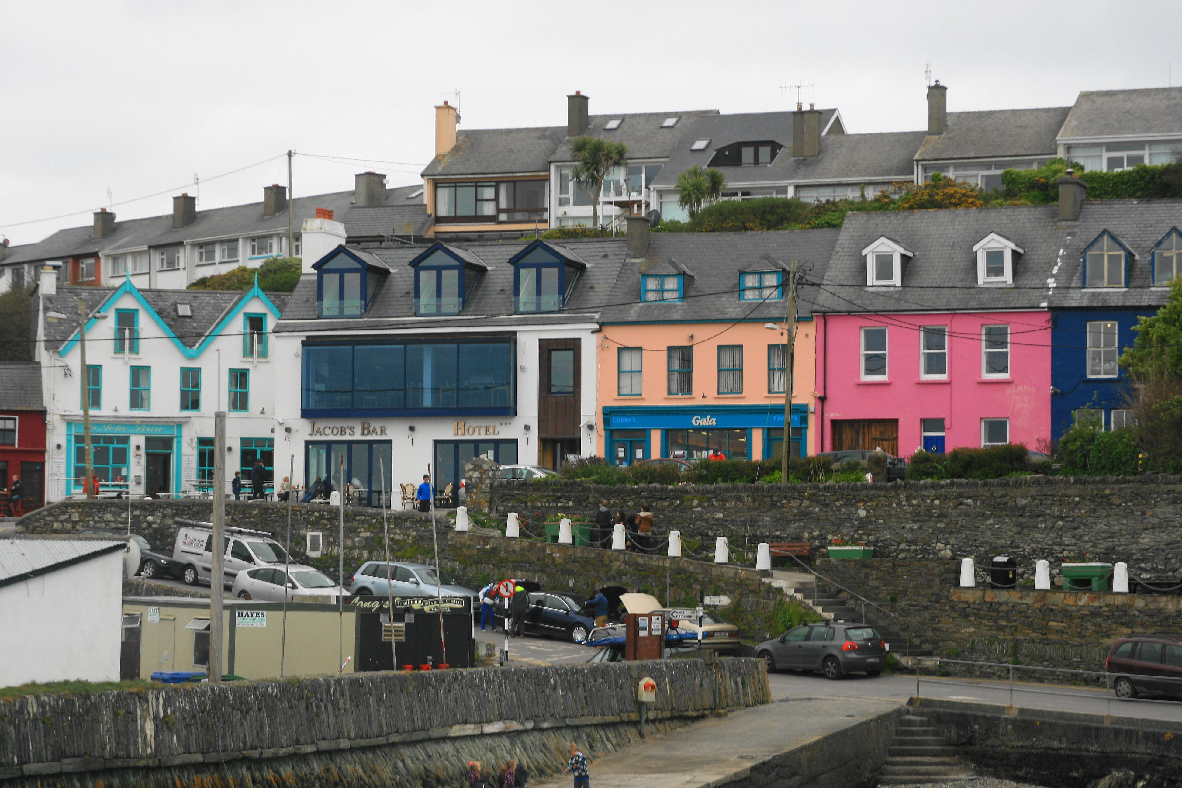 Baltimore, Co. Cork, Ireland